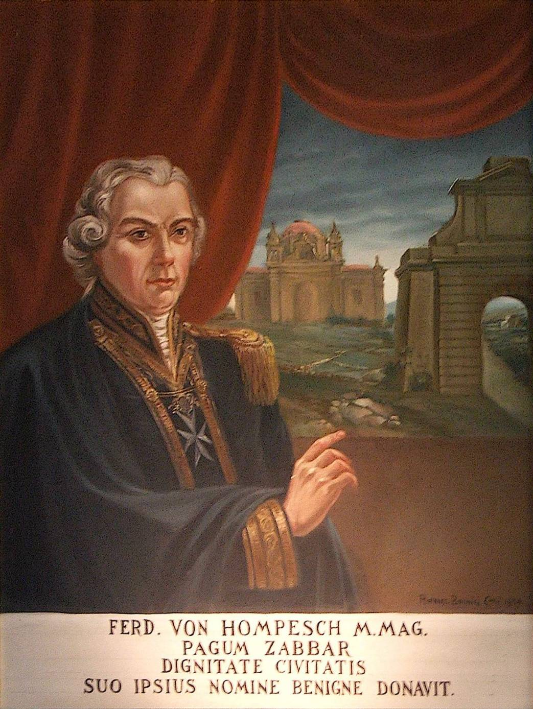 Grand Master Ferdinand von Hompesch (1797 - 98 ). It is important to know that, in those days, in Malta, there was a Party of French Knights and some Maltese noblemen promoting French interest. The Grand Master Hompesch knew about this French Party and for many times he was warned by his friends to watch their moves. But the Grand Master Hompesch thought that the strong fortifications of the islands were safe and so he didn't give much attention to his friends warnings. On the 10th 0f June 1798, a great French fleet, of 472 war vessels under the command of General Napoleon Bonaparte, advanced on Malta and in no time the French troops landed in St. George's Bay. With little opposition, the French troops advanced to Zebbug and Siggiewi which both fell into their hands. The French Party was making things easy and were using their plans to help Napoleon to capture the Maltese Islands. Both Notabile ( Mdina ) and Gozo surrendered to the French strong army. Even tough Napoleon was leading a great strong army against Malta, he never really won Malta by war but a Capitulation which the Knights accepted and signed with General Bonaparte. This Capitulation has stirred the Maltese against both the Order and the French. Aware of the surrender of the Knights, the Maltese all alone continued to resist the French troops and from the Cottonera fortifications opened fire on them. It took great pains for some priests to convince the Maltese to surrender to the French strong army. On the 17th. June 1798, the Grand Master Ferdinand von Hompesch together with the Knights of St. John left Malta for Trieste and Malta was now the property of the French.